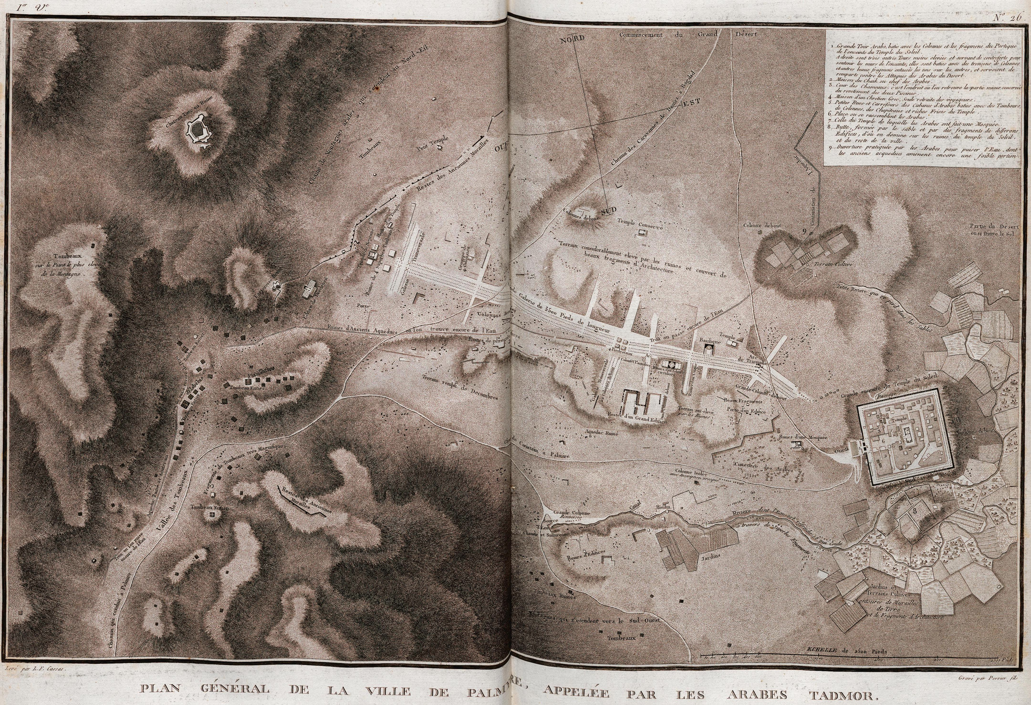 Louis-François Cassas From: Voyage pittoresque de la Syrie, de la Phoenicie, de la Palaestine et de la Basse Aegypte: ouvrage divisé en trois volumes contenant environ trois cent trente planches